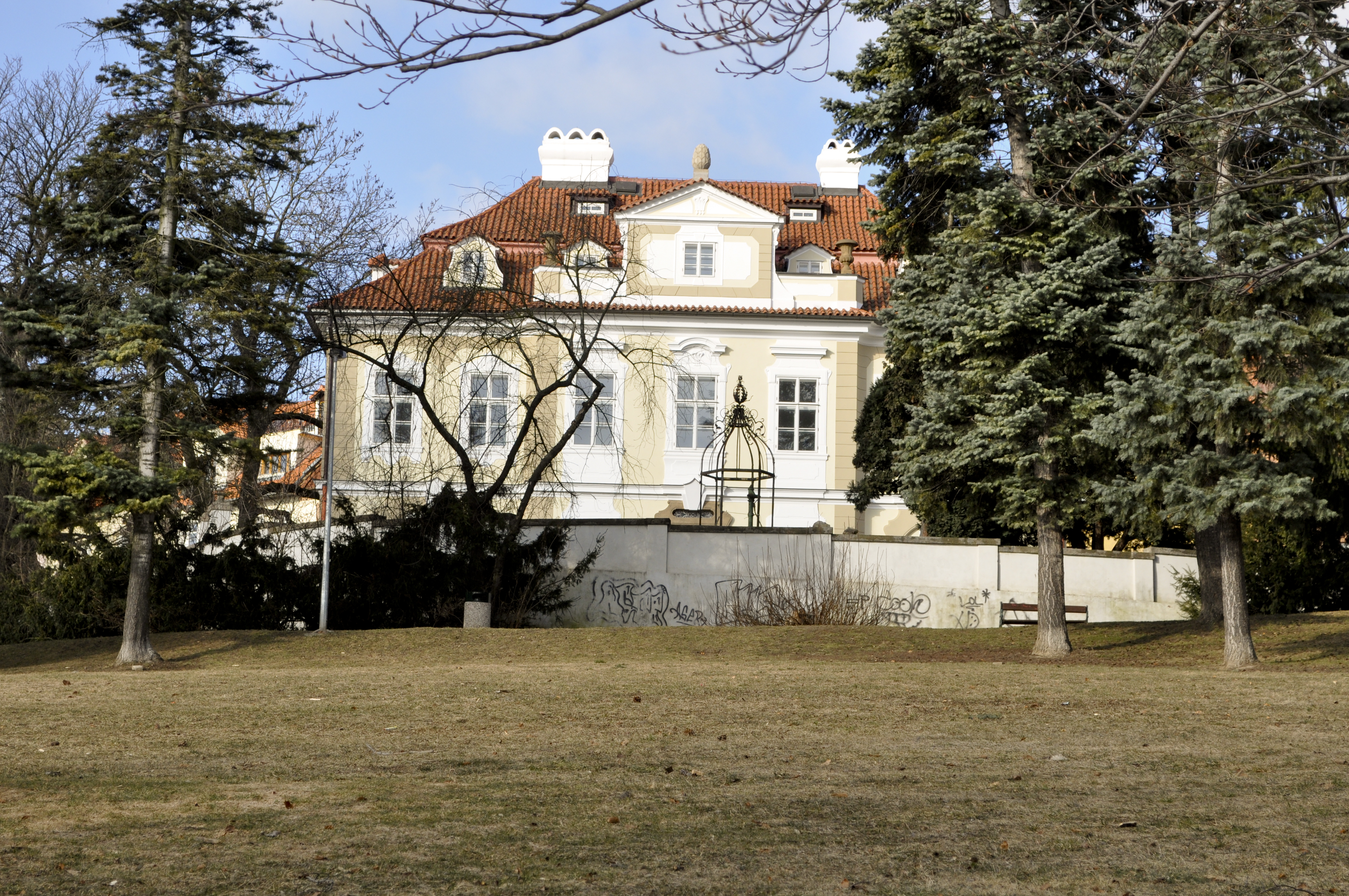 Hanspaulka Mansion - view from the etry gate